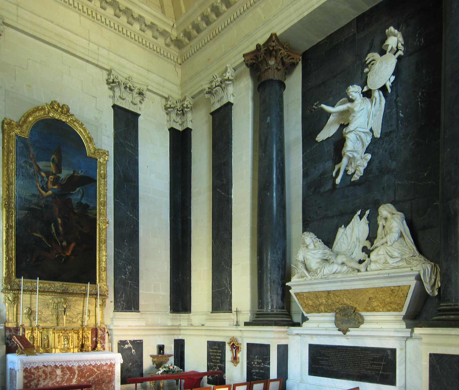 Castle Serrant, located near the village of Saint-Georges-sur-Loire, 15 km west of the town of Angers, in the county of Maine-et-Loire/France